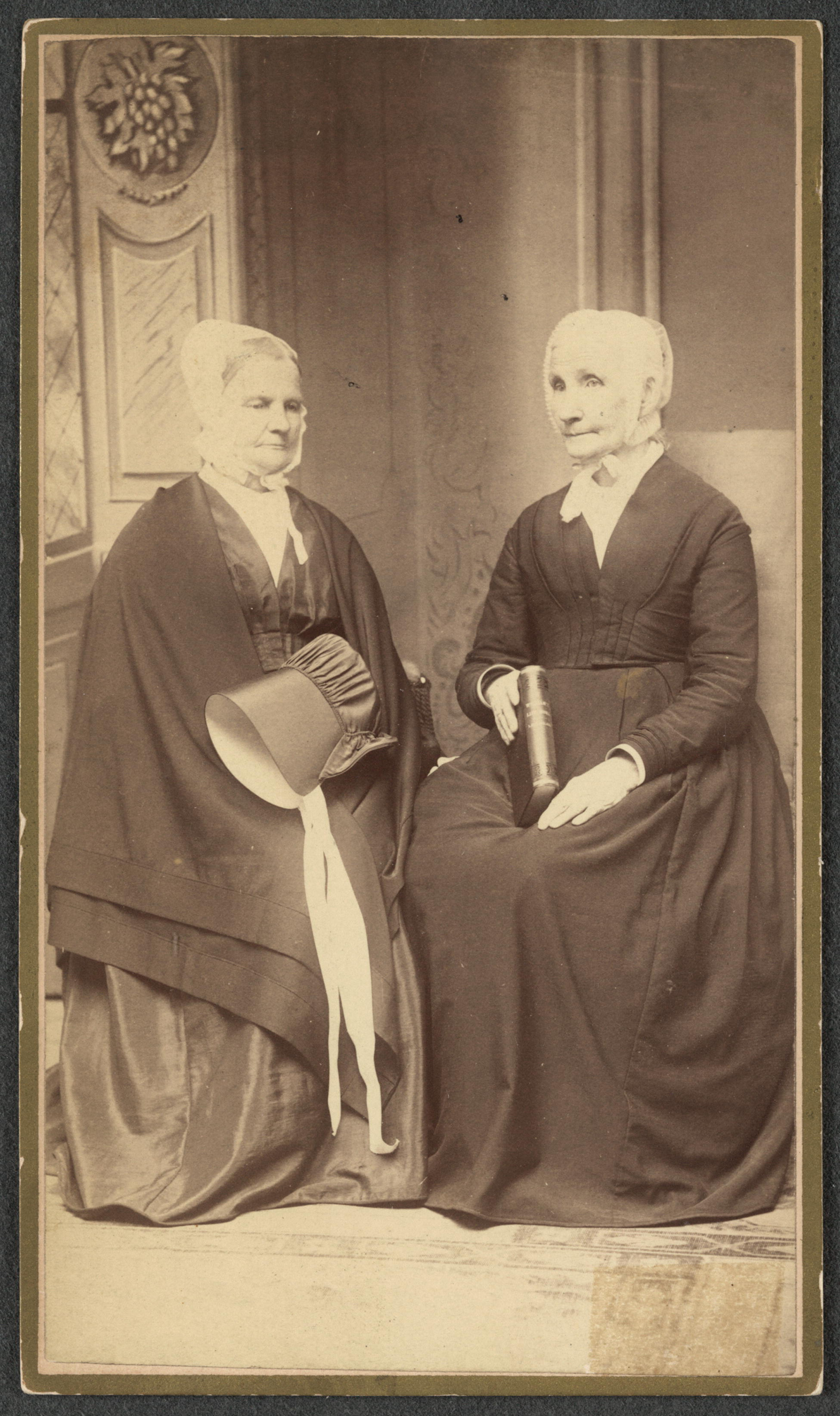 Summary: Studio portrait, full-length, seated, Elizabeth L. Comstock (left), wearing a cloak and lightweight bonnet and holding a second dress bonnet, and Laura S. Heaviland (right), also wearing a lightweight bonnet and holding a book.